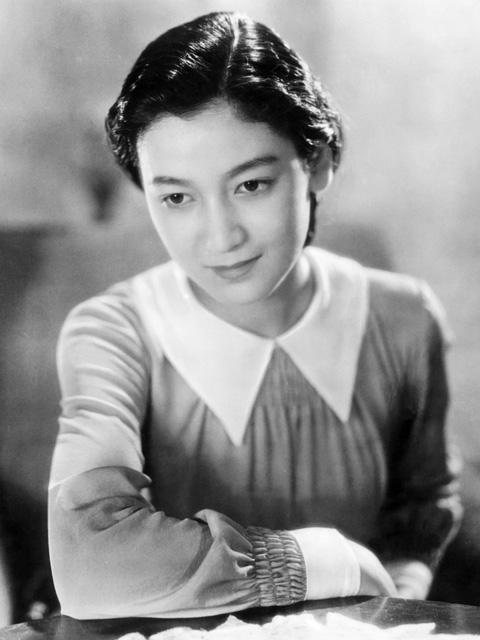 Setsuko Hara in the motion picture Atarashiki tsuchi (Die Tochter des Samurai).